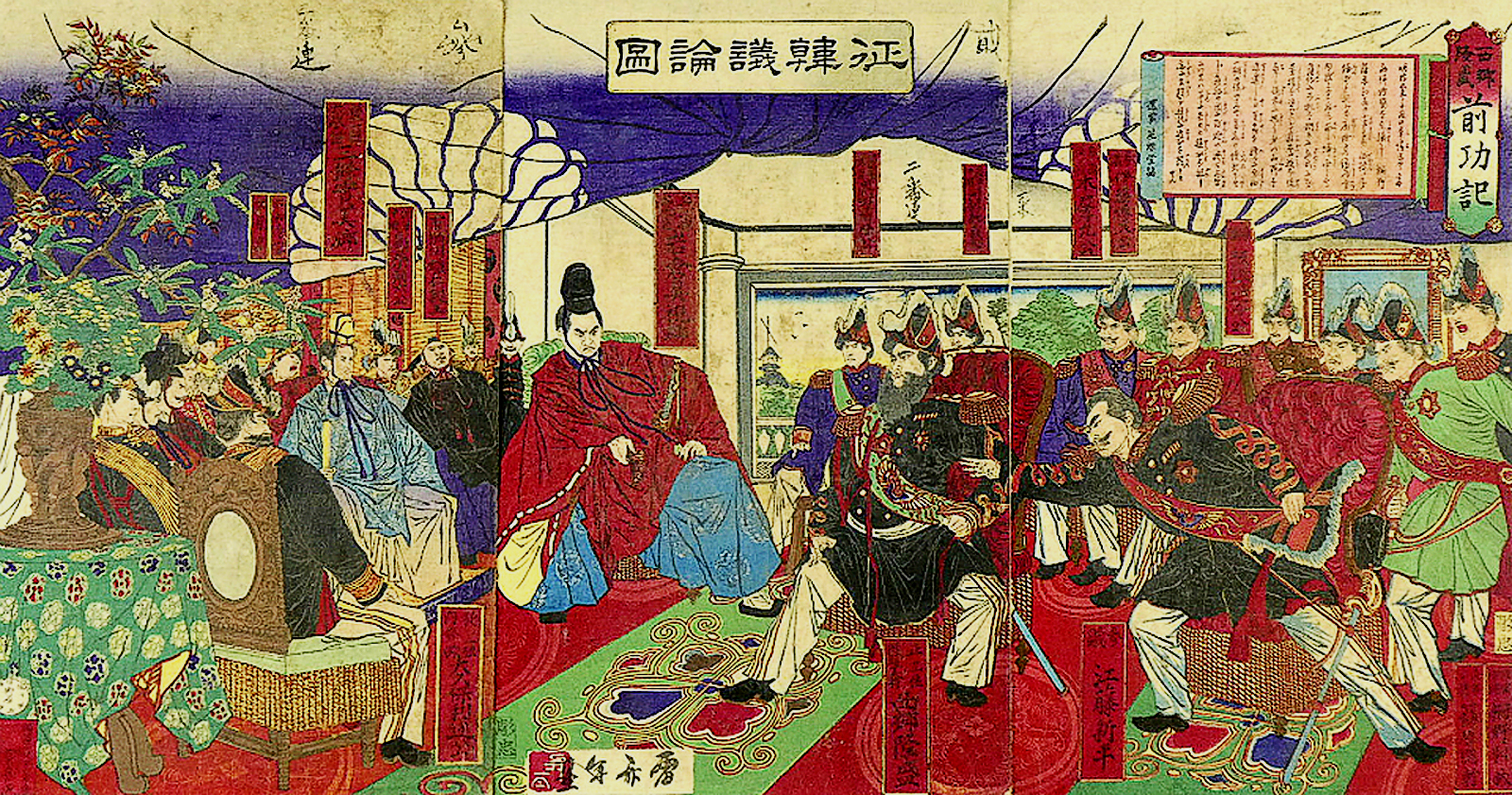 Seikanron debate (Japan). Saigō Takamori is sitting in the center. 1877 painting.